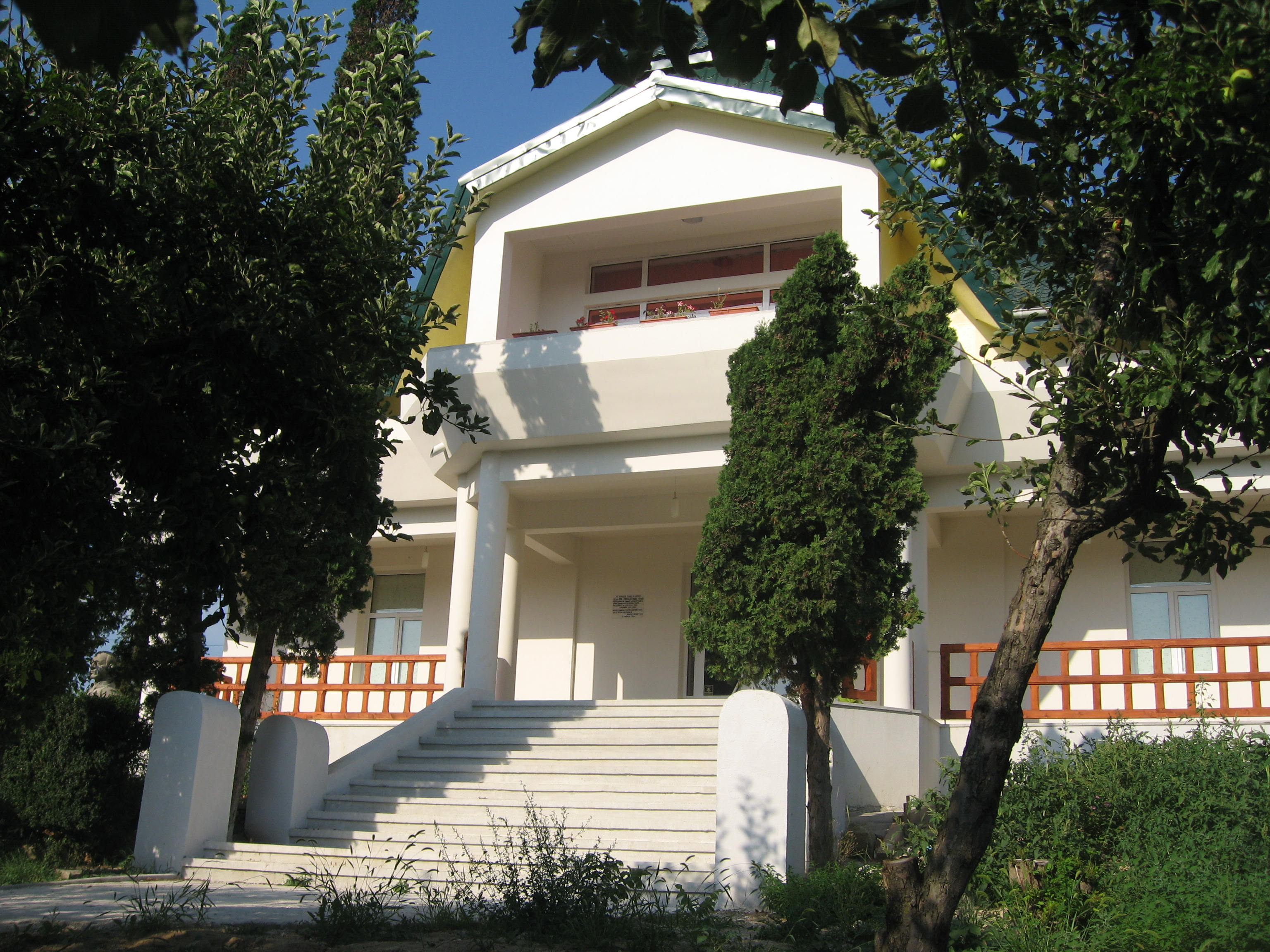 Conacul lui Ion Inculeţ din Bârnova